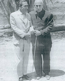 Mossadegh and Amir Hooshang Keshavarz